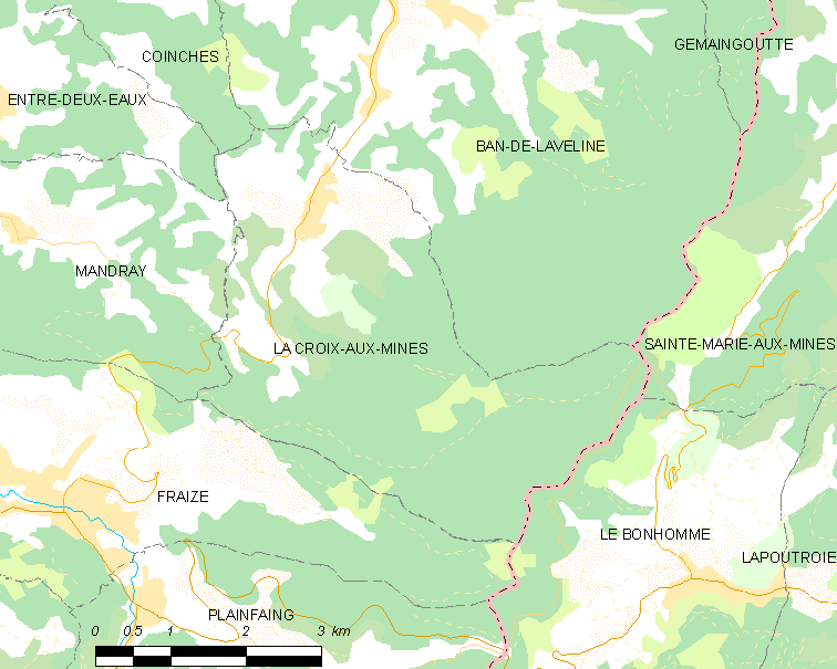 Map of French municipality La Croix-aux-Mines